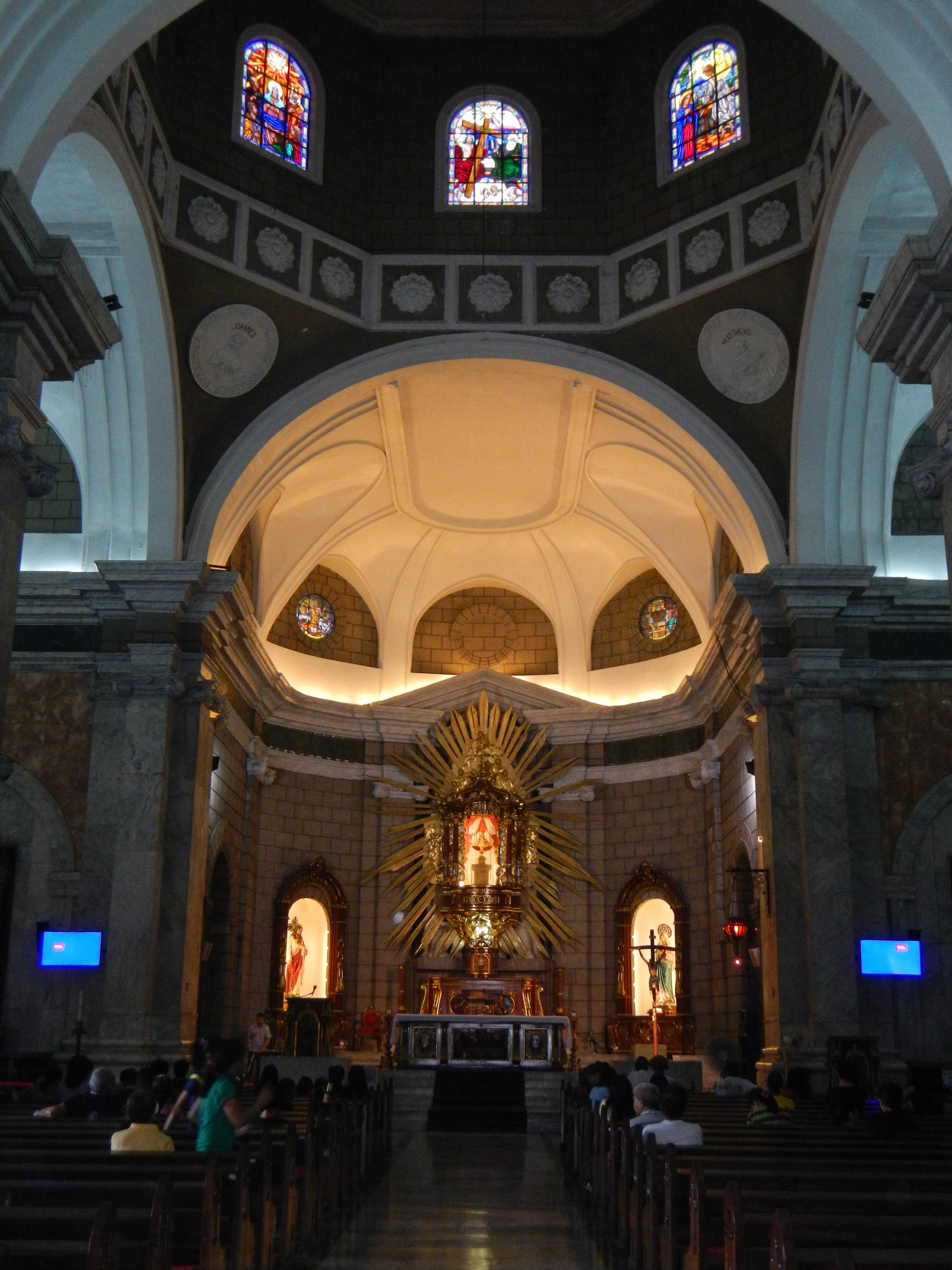 Santo Niño de Tondo Parish[1]Sto. Niño de Tondo Parochial Church[2]. The present church is 65 meters long, 22 meters wide and 17 meters high. It has one main central nave and two aisles connected by solid columns, and is Neo-Classical inspired with its Ionic pilasters and buttresses supporting the domes of the bell towers. On each side of the facase are twin towers. Straight lines and a rose window embellish the triangular pediment. It is located in Tondo, Manila, Philippines. The feast of Sto. Niño of Tondo is celebrated every third week of January.[3][4]Tondo, Manila [5] [6] [7]Coordinates: 14°36'28"N 120°58'2"E Established by Franciscan priests on May 3, 1572. Construction of its first stone structure started in 1611 under the term of Fr. Alonzo Guererro and completed by 1695. Damaged and rebuilt after the earthquakes of 1740 and 1863. The present strucure was built after World War II.[8][9][10]Roman Catholic Archdiocese of Manila [11]Vicariate of Sto. Nino